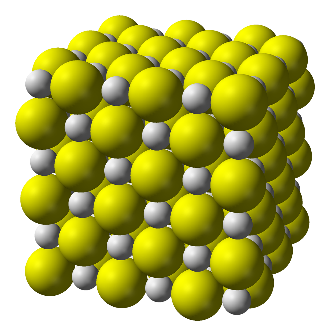 Space-filling model of part of the crystal structure of calcium sulfide, CaS.